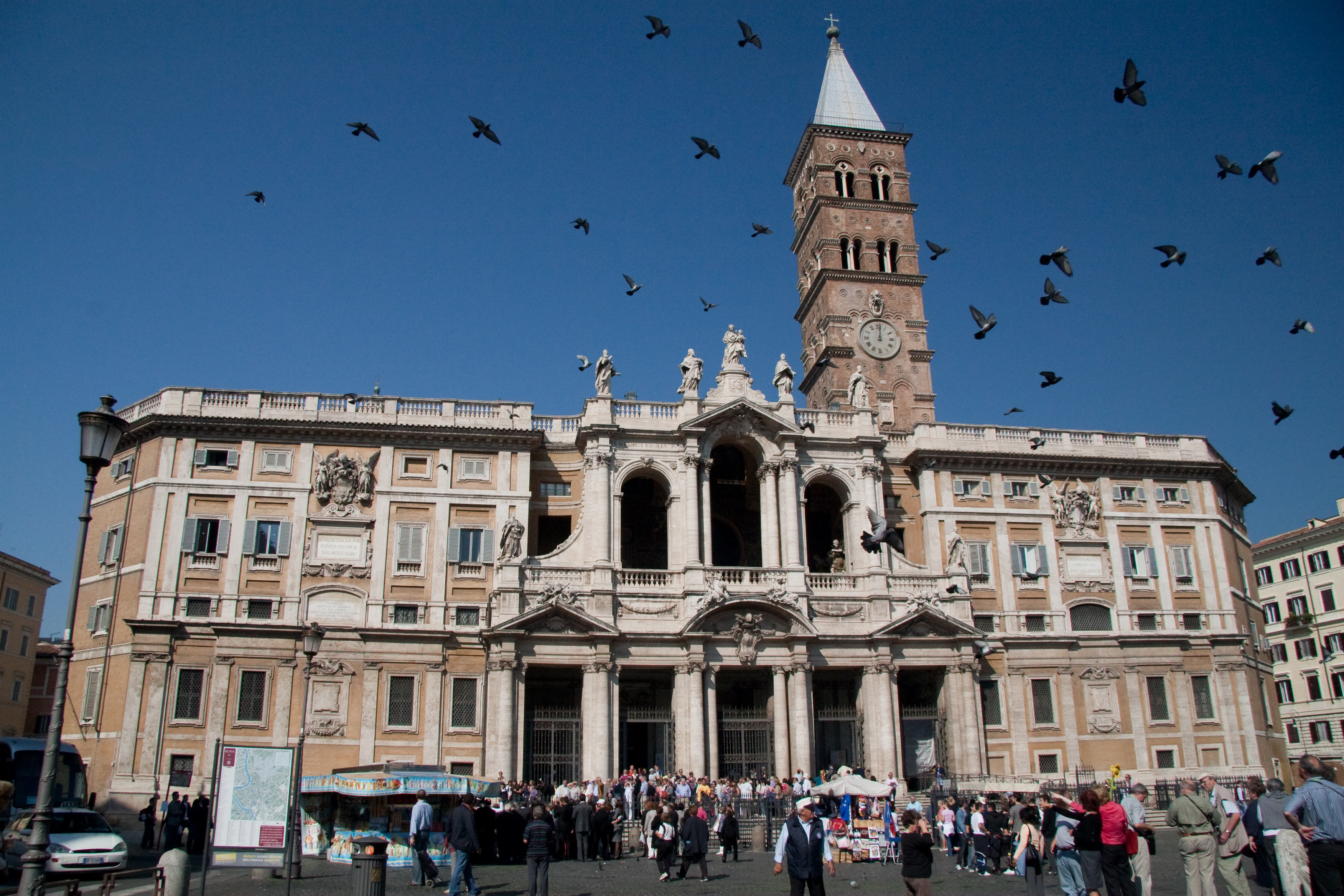 The Basilica di Santa Maria Maggiore is a church on the Esquilino in Rome, Italy. 41°53′50.4″N 12°29′56″E / 41.897333°N 12.49889°E